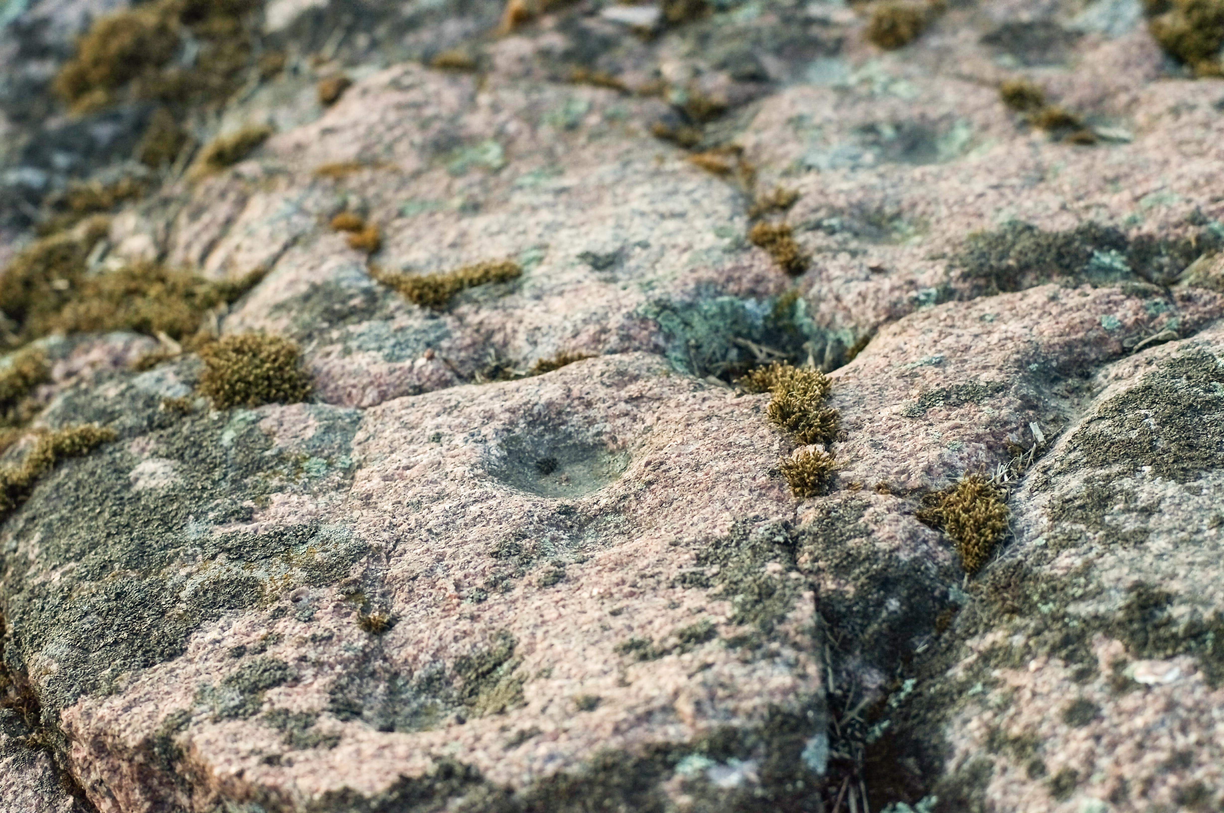 "Saddle stone of Zanarach" is a geological natural monument of national importance.